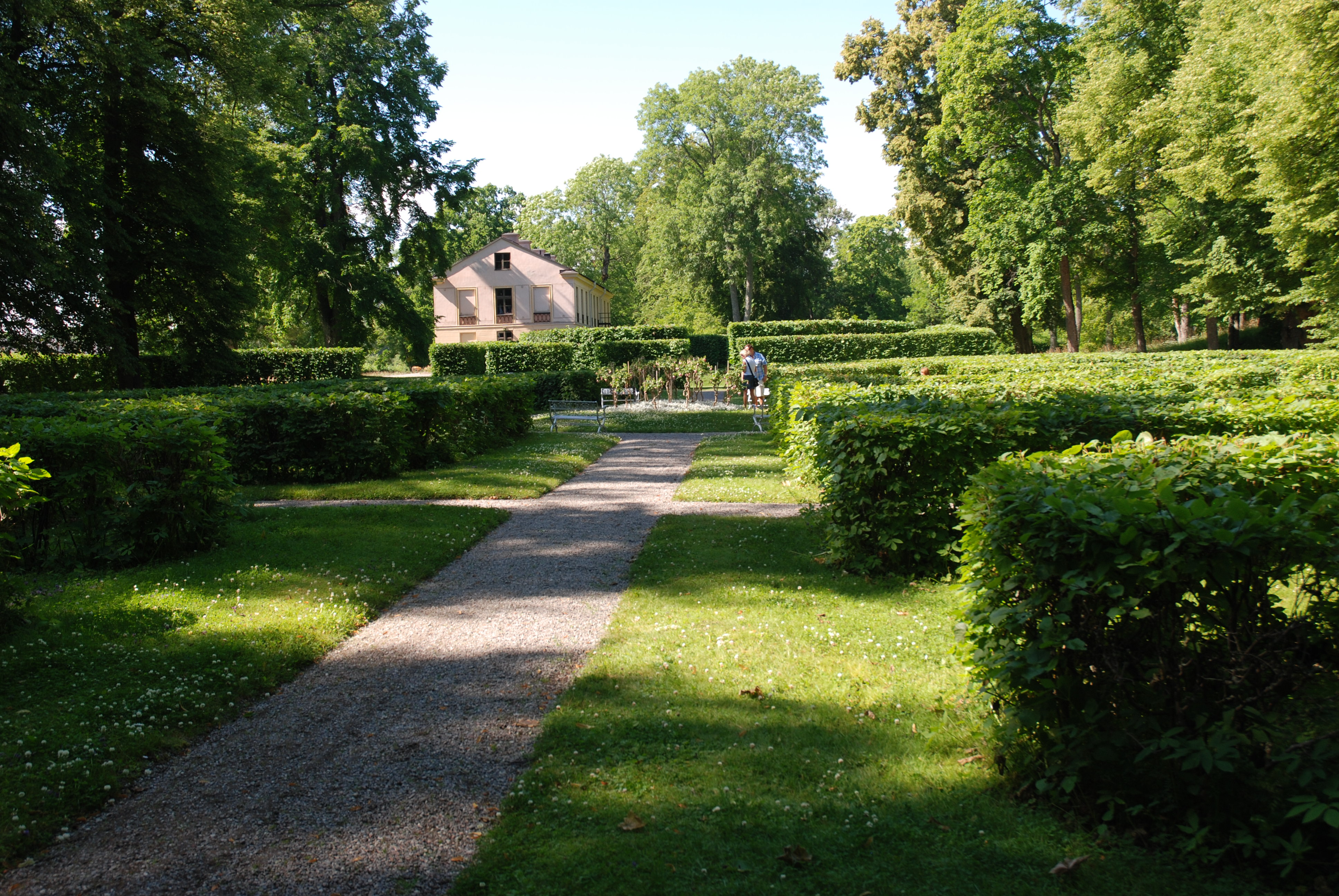 Stjärnboské (baroque bosquet hedge plantation in star form) at the Royal Castle of Tullgarn, Sweden. In the circle in the middle of the bousquet there is a fuchsia plantation.